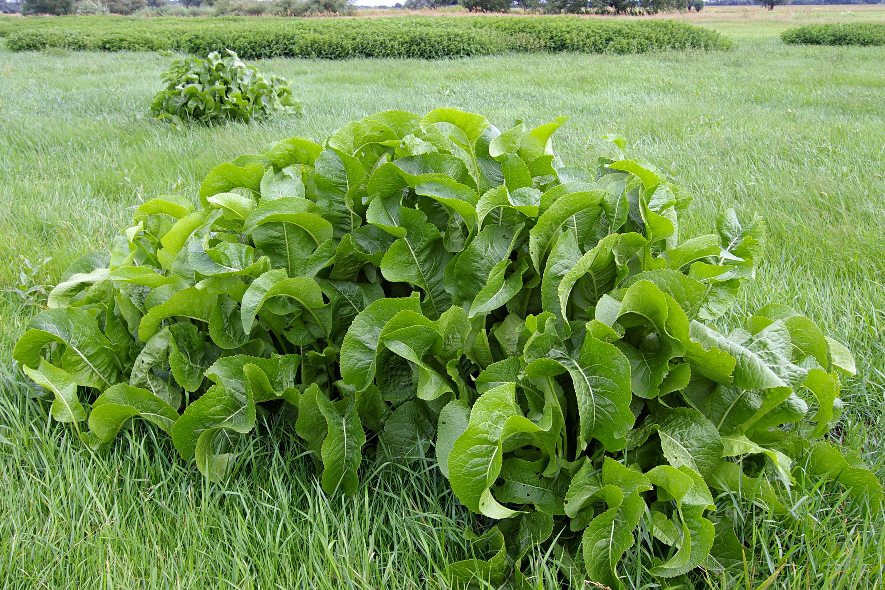 Group of plants (or giant individual plant?) from the Horseradish, Armoracia rusticana, in the Elbe floodplains.